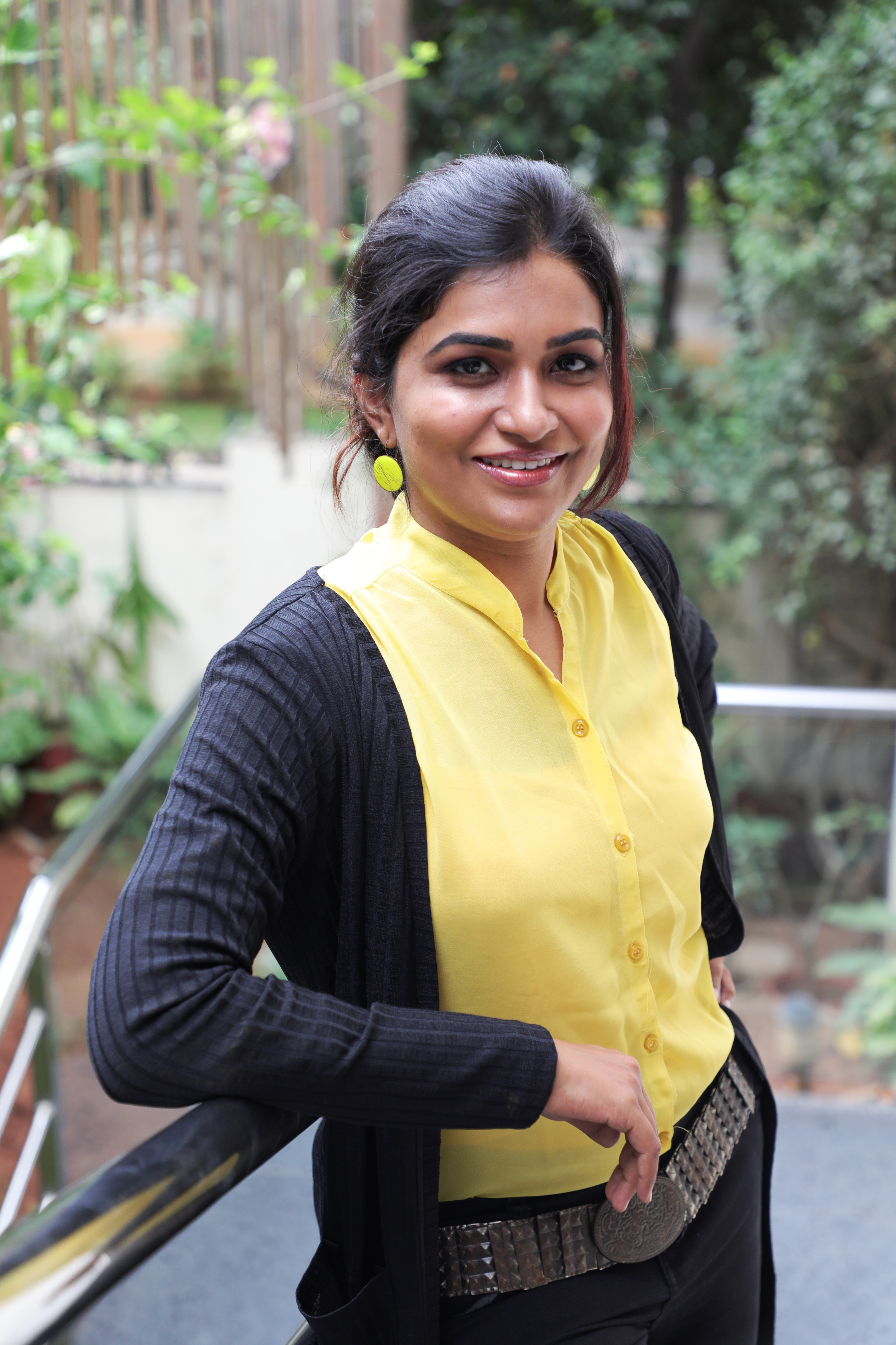 Dr. Mani Pavitra